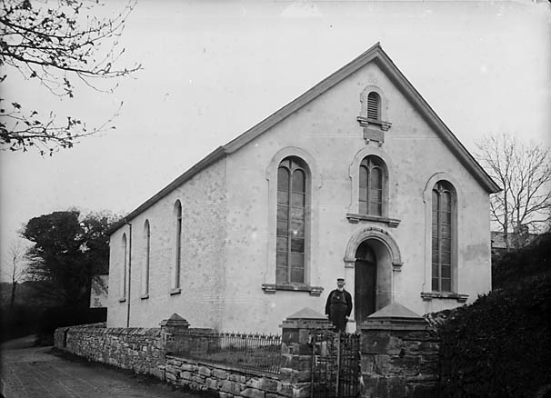 1 negative : glass, dry plate, b&w ; 12 x 16.5 cm.